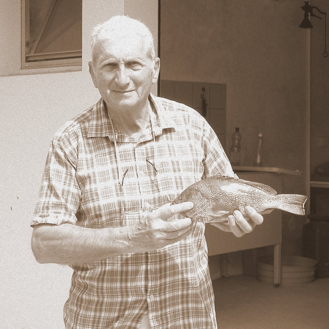 Professor Louis Euzet, French parasitologist. 1922(?) - 24 September 2013. Photograph taken in New Caledonia in 2003; the fish in the hands of Prof Euzet is a speckled blue grouper, Epinephelus cyanopodus, that he was going to examine for parasites.